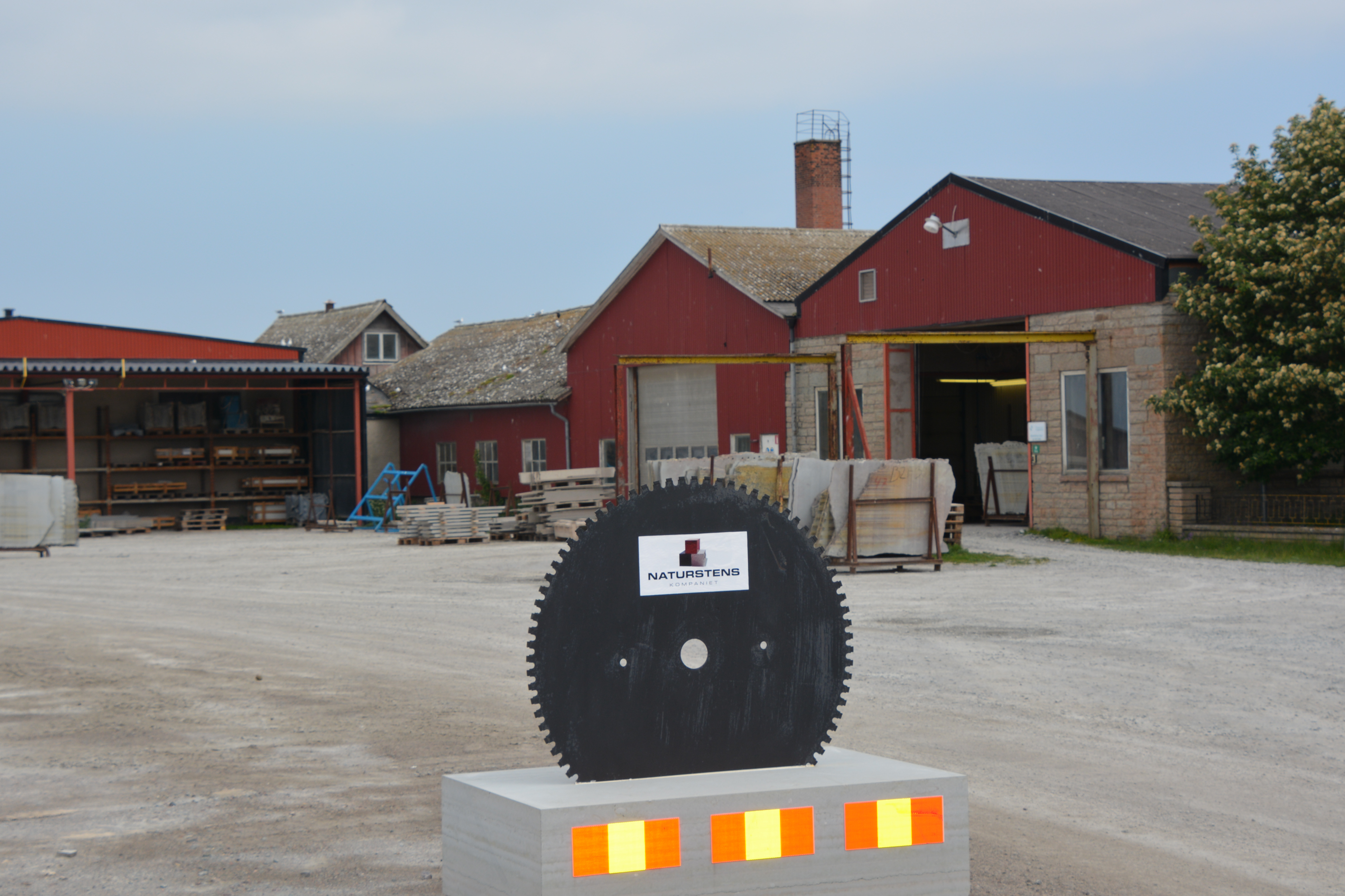 Sågad kalksten, Naturstenskompaniet i Stensvik